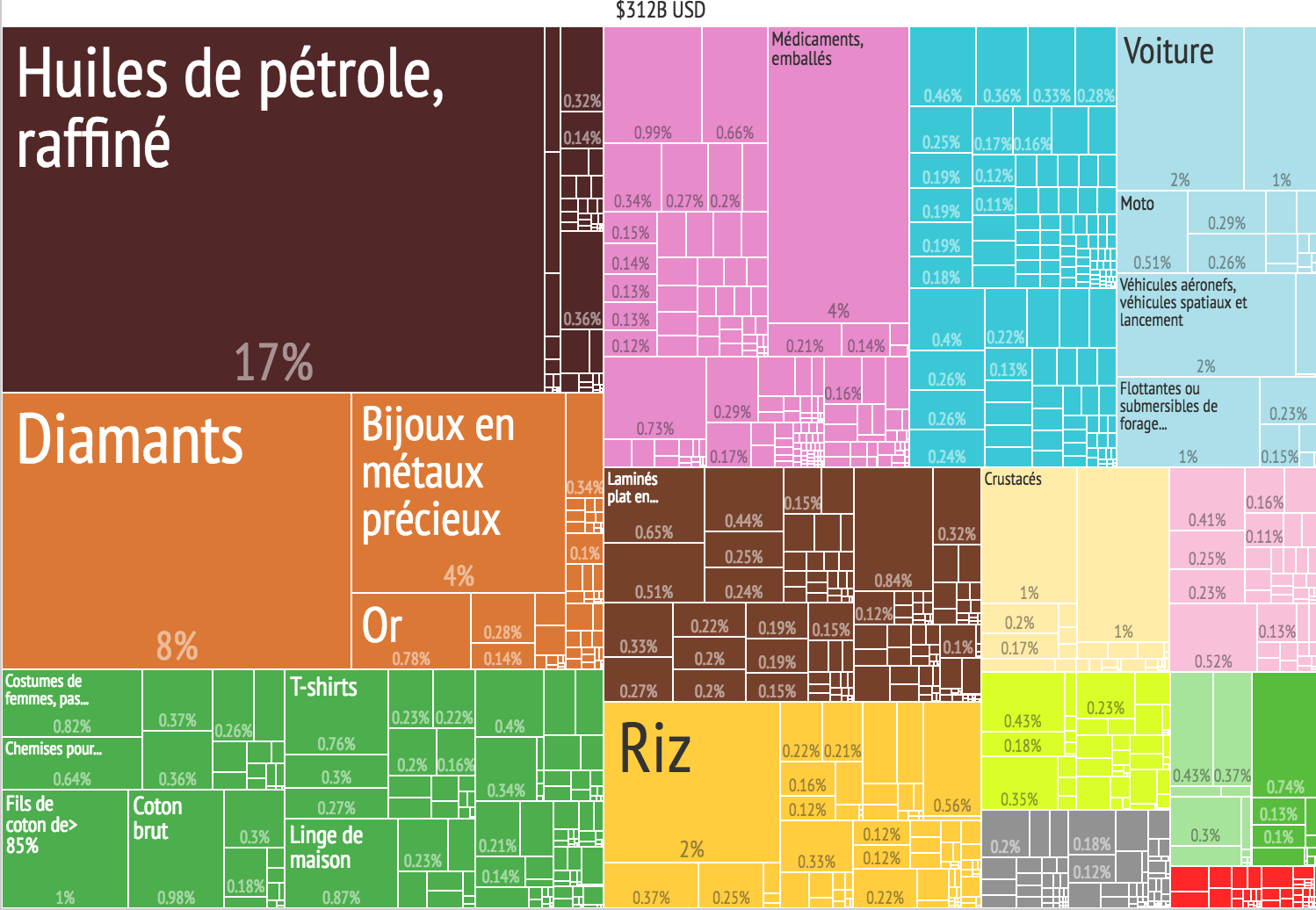 2014 produits linde exportation treemap